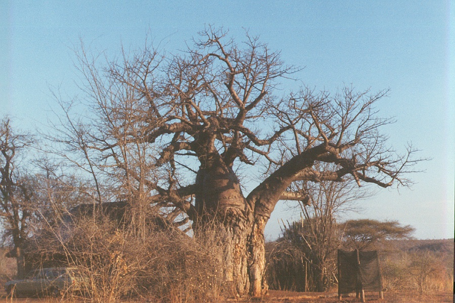 Swimuwini Rest Camp, Gonarezhou National Park, Zimbabwe.